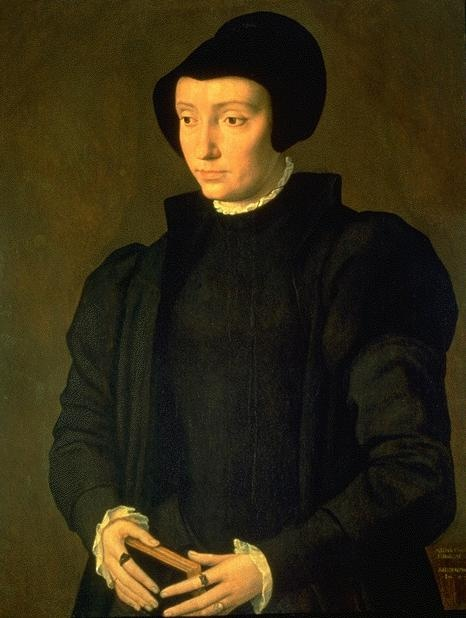 Portrait of Christina of Denmark[1] or of Christina's sister Dorothy[2]